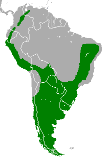 Geranoaetus melanoleucus range map Source